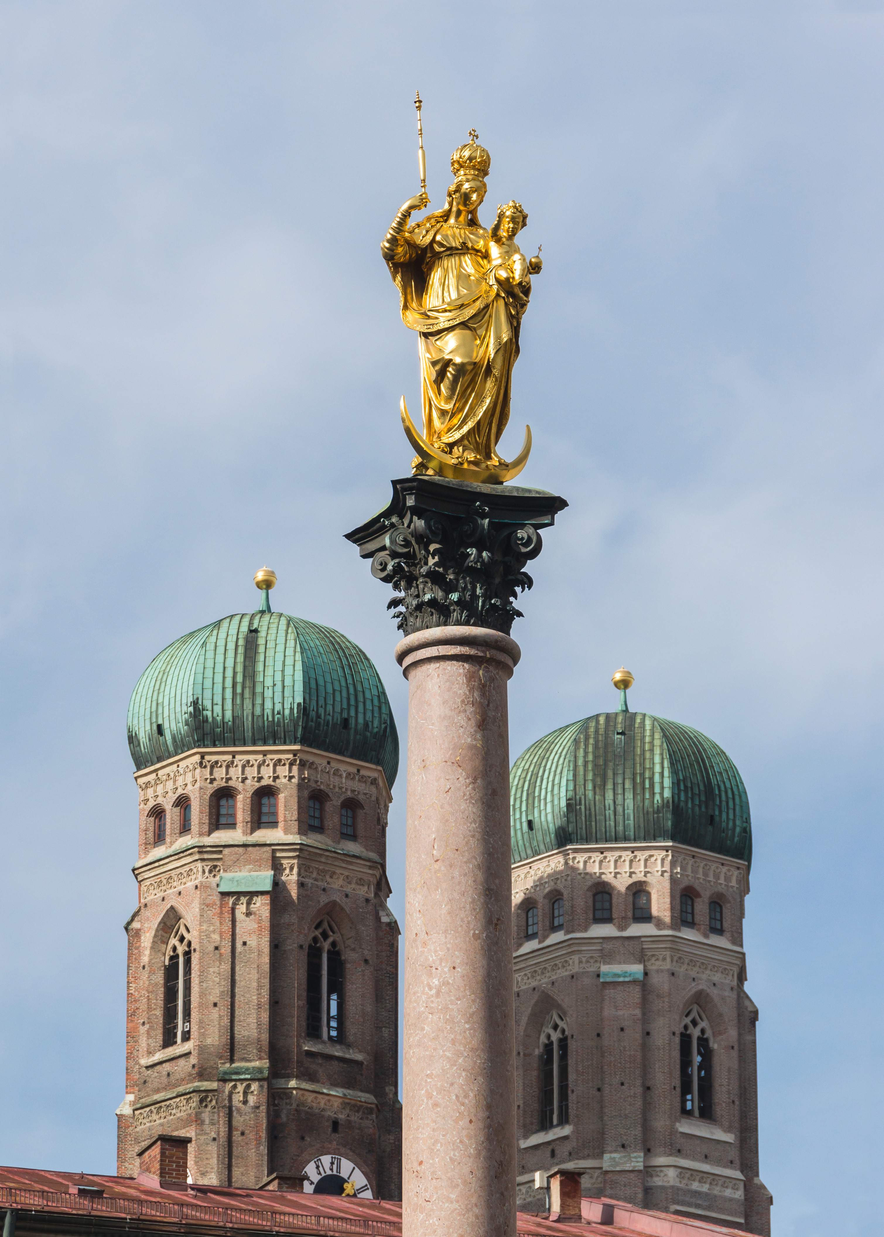 the "Mariensäule", and the towers of the "Frauenkirche" (cathedral). Munich, Bavaria, Germany.